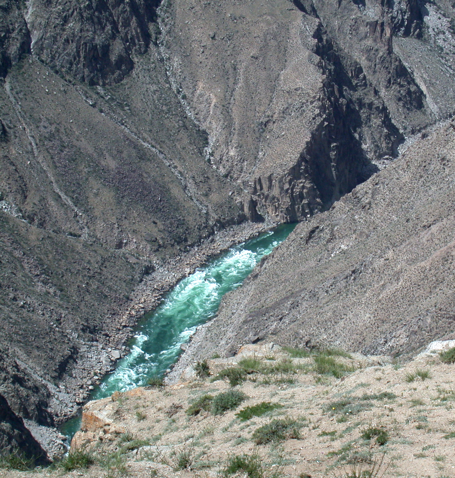 Gorges of the Yellow River, China. Photo by jide, july 2005.